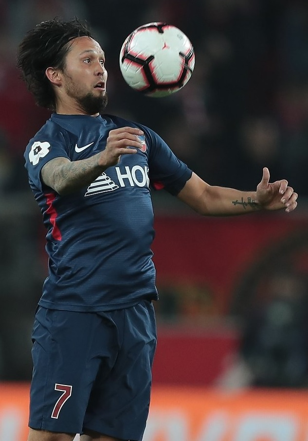 Aleksandr Zotov with FC Yenisey Krasnoyarsk in a game against FC Spartak Moscow.